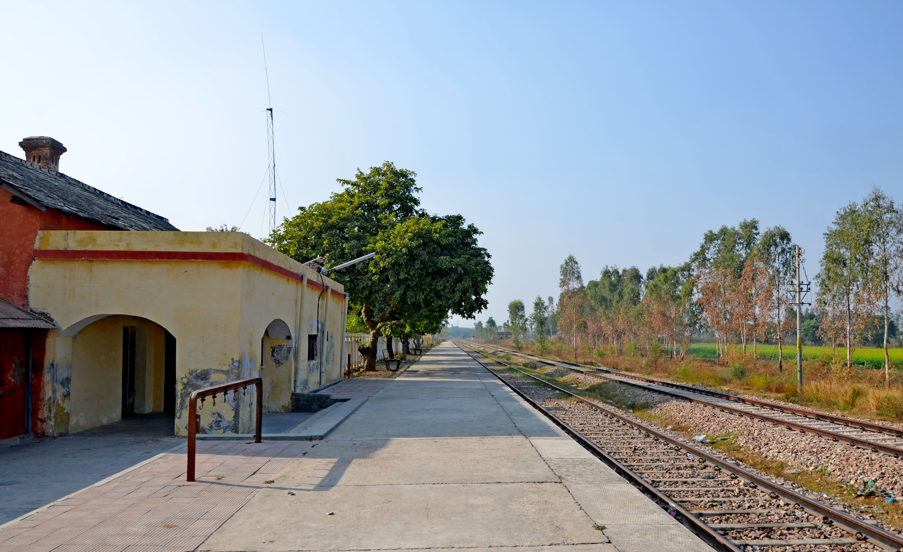 Farrukhnagar Railway Station building.